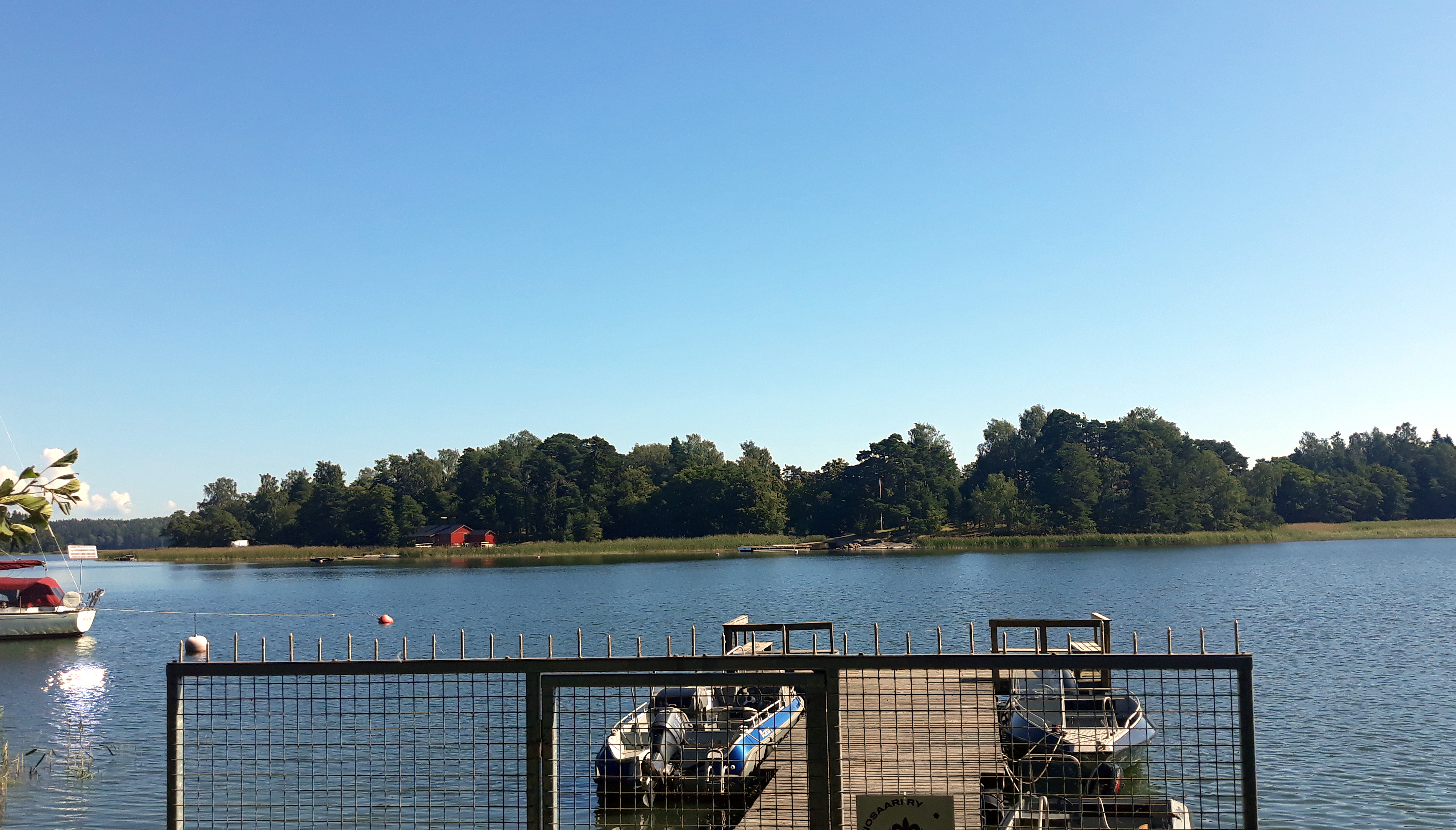 Vasikkaluoto as seen from the shore of Tammisalo, Helsinki.